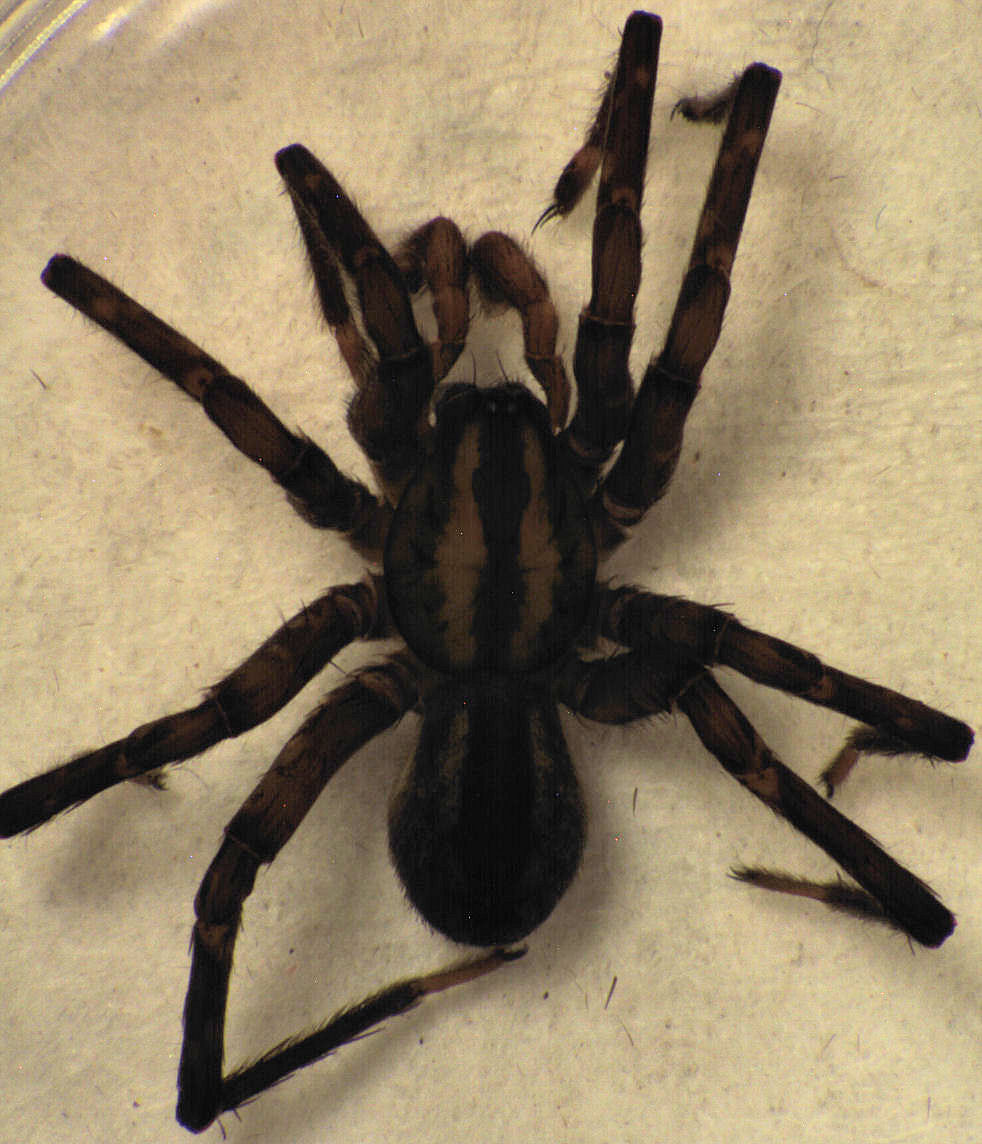 Gradungula sorenseni (adult male topotype)